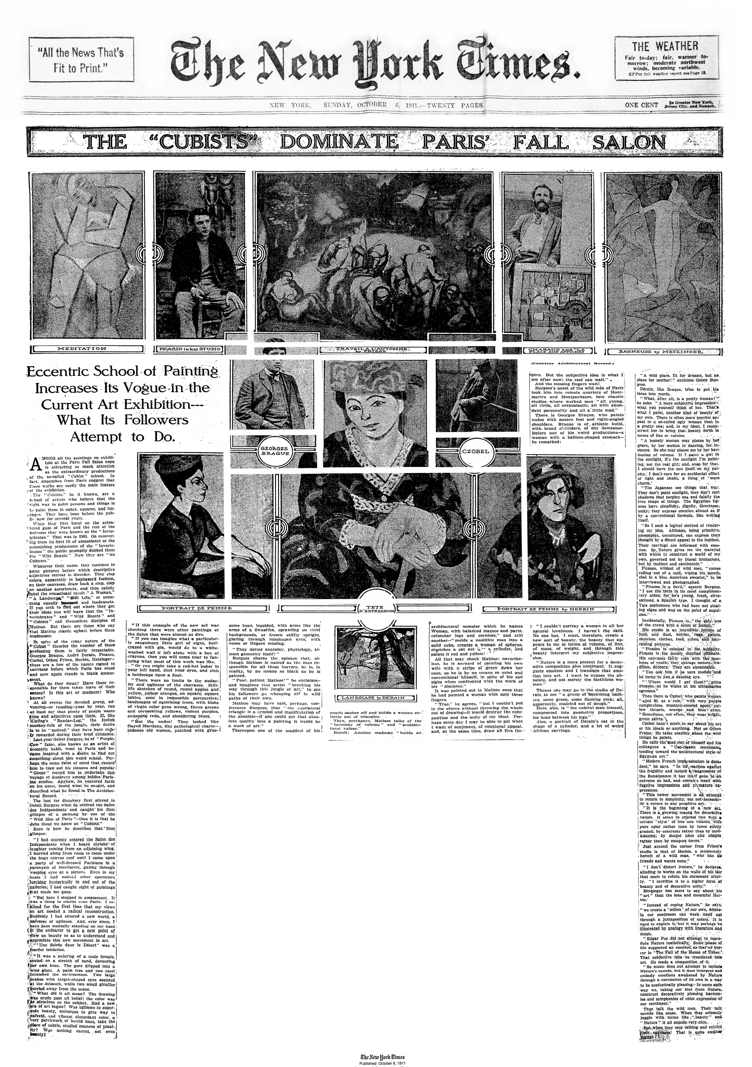 The "Cubists" Dominate Paris' Fall Salon, subtitled, Eccentric School of Painting Increases Its Vogue in the Current Art Exhibition - What Its Followers Attempt to Do, The New York Times, October 8, 1911. Picasso's 1908 Seated Woman (Meditation) is reproduced along with a photograph of the artist in his studio (upper left). Metzinger's Baigneuses (1908-09) is reproduced top right. Also reproduced are works by Derain, Matisse, Friesz, Herbin, and a photo of Braque. (nameplate added for the record)